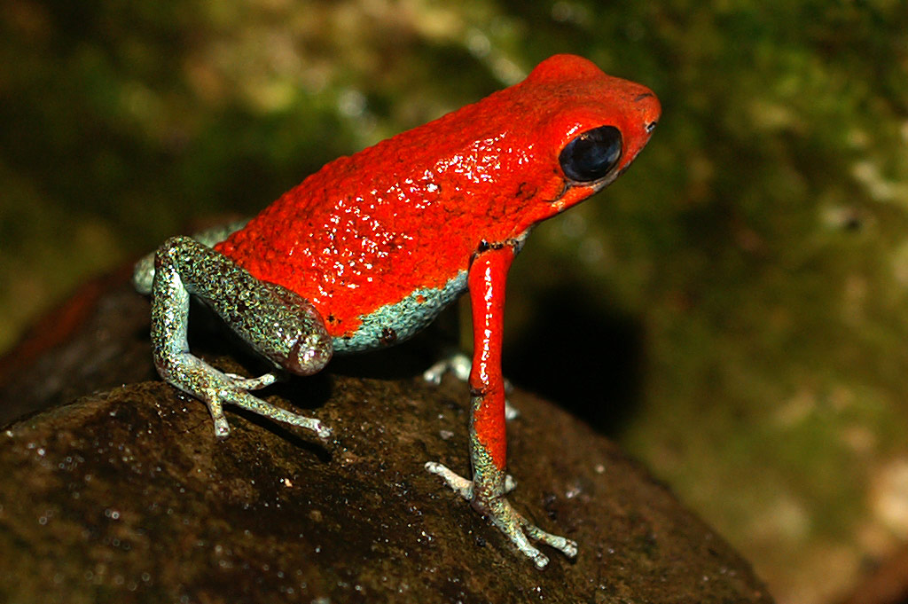 Granulated poison arrow frog